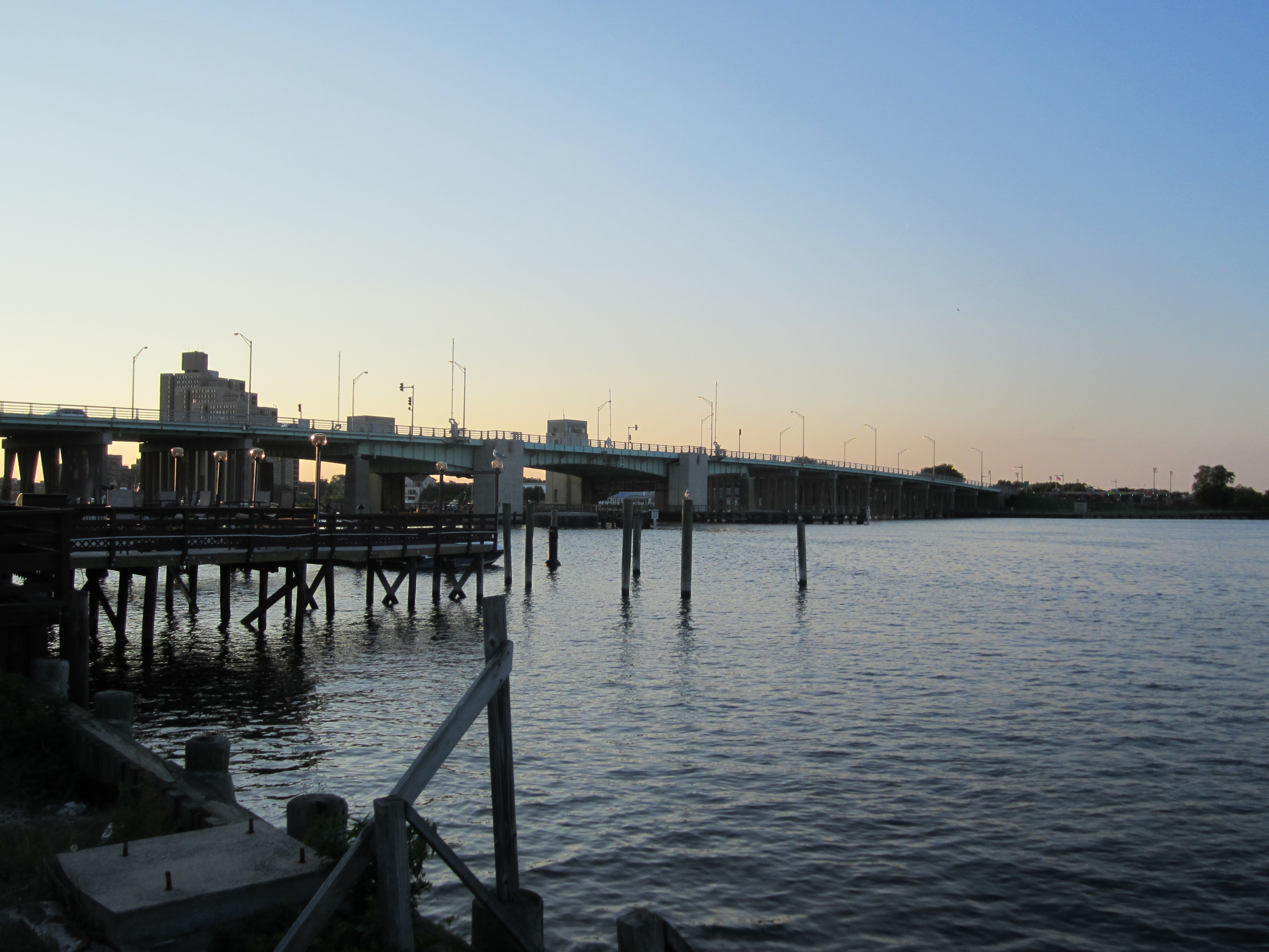 The Atlantic Beach Bridge in New York. This image is taken looking northwards, towards Long Island.